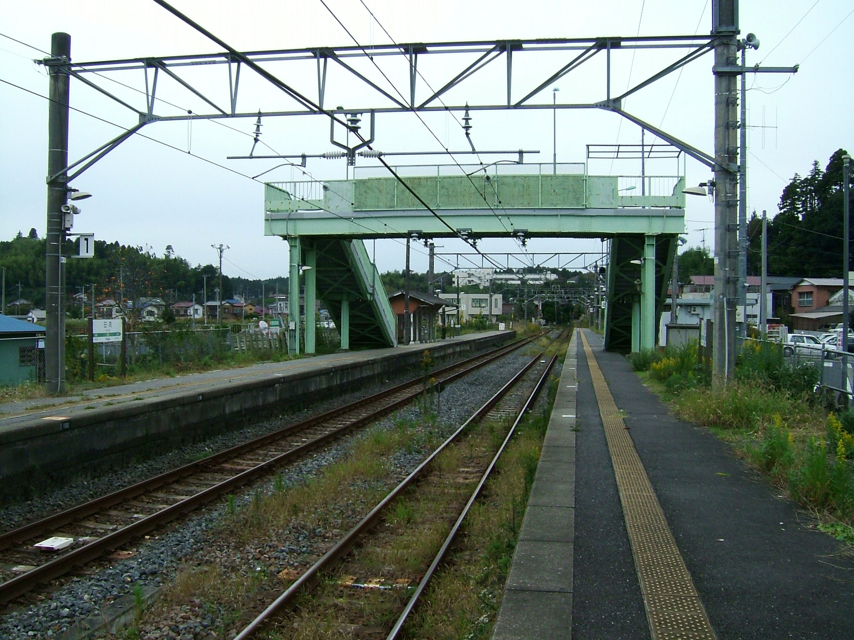 Hyūga Station platform (East Japan Railway Sōbu Main Line)